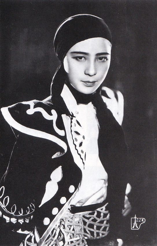 Japanese revue star MIZUNOE Takiko as Crispin fron "Bella Donna".